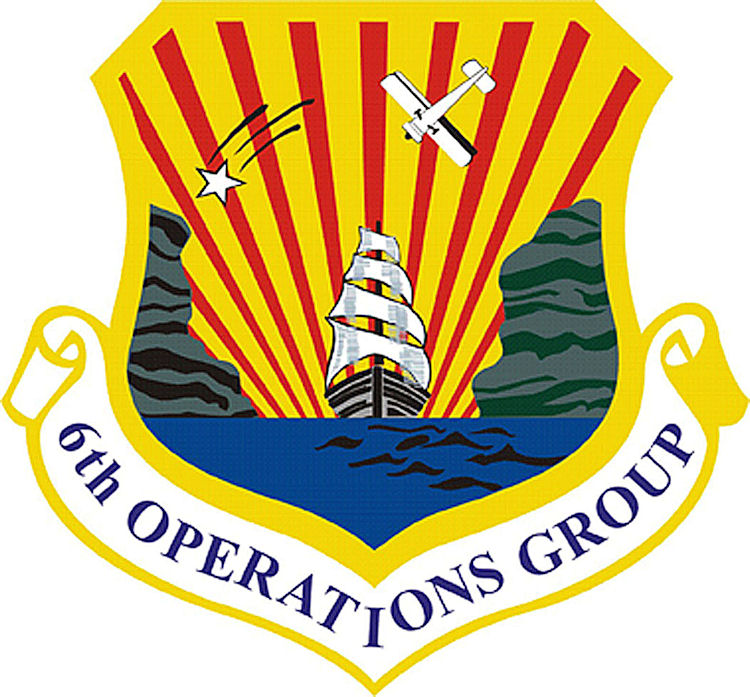 Emblem of the USAF 6th Operations Group